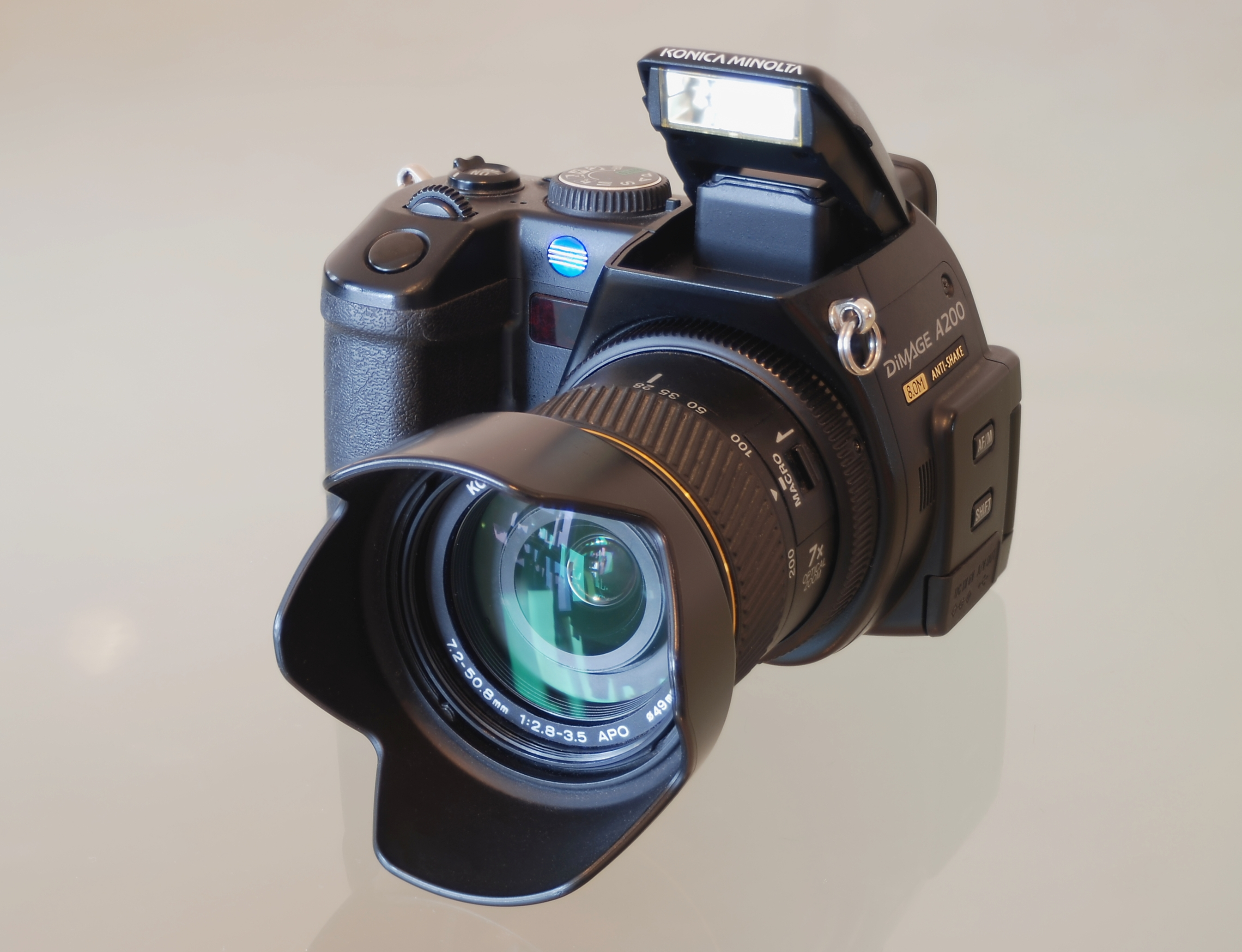 A Konica Minolta DIMAGE A200 (2005). Composite image of seven photos, using focus brackting. Camera: Nikon D80 with Nikkor 37-70mm (50mm) Exposure: manual, 1/3 s, F/4.2